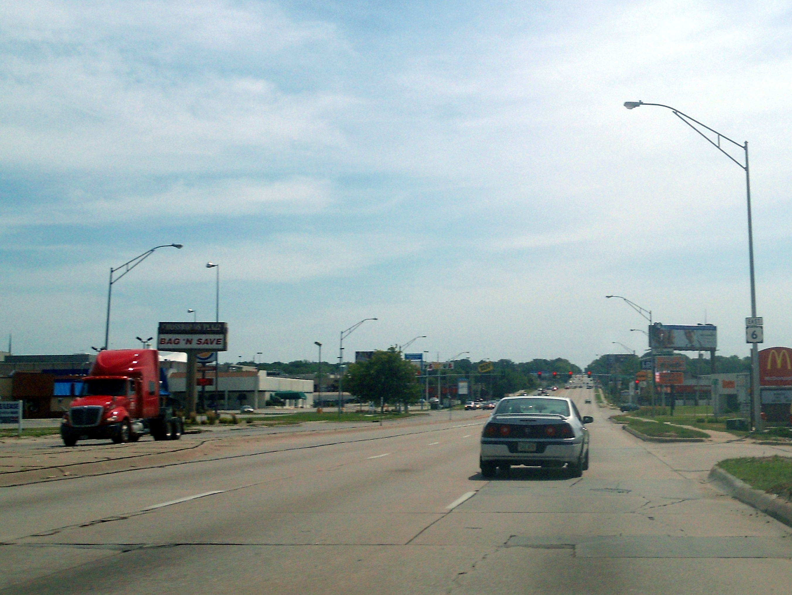 US 6 (Dodge Street) runs east in Omaha, NE. Ahead is 76th Street intersection.